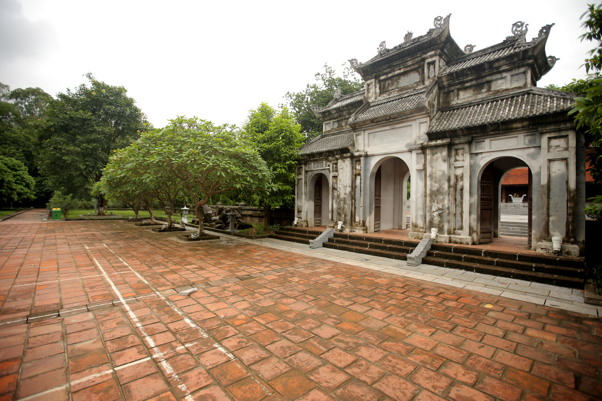 Sơn Tây (Hanoi)